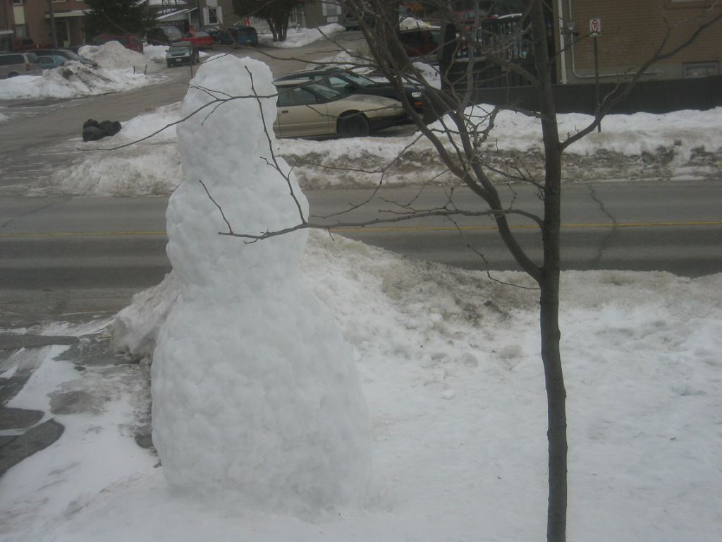 Original description at Wikipedia: "I took this picture myself. A large snowman weighing approximately 400 kg. It melted to almost nothing during the January thaw."